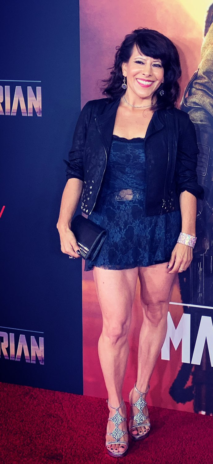 Actress, stuntwoman, and musician Misty Rosas, delivered the motion capture performance of the character Kuiil in the Star Wars television series The Mandalorian.